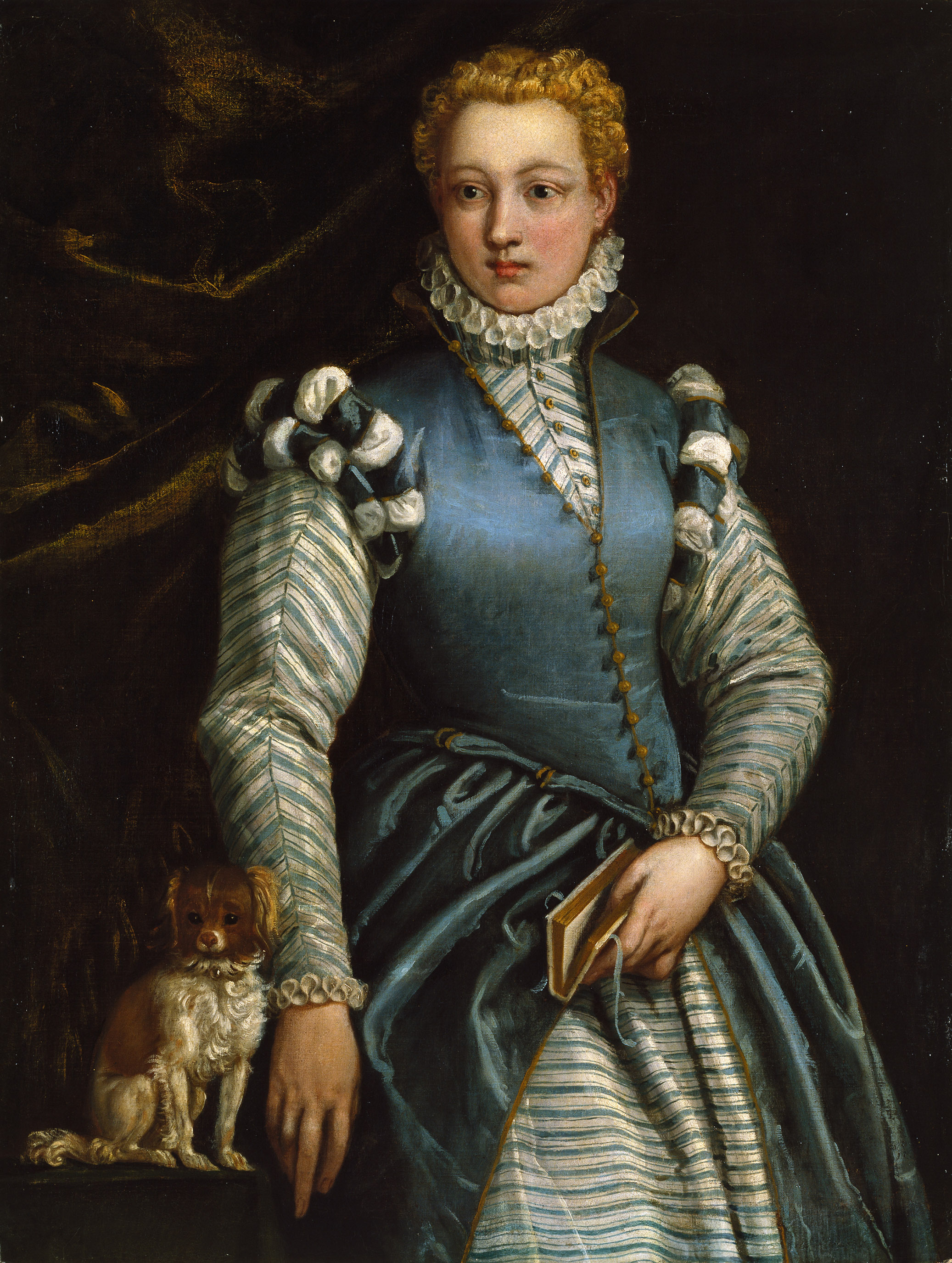 Proposed by Aliverti (2008) to be the commedia dell'arte actress Isabella Andreini